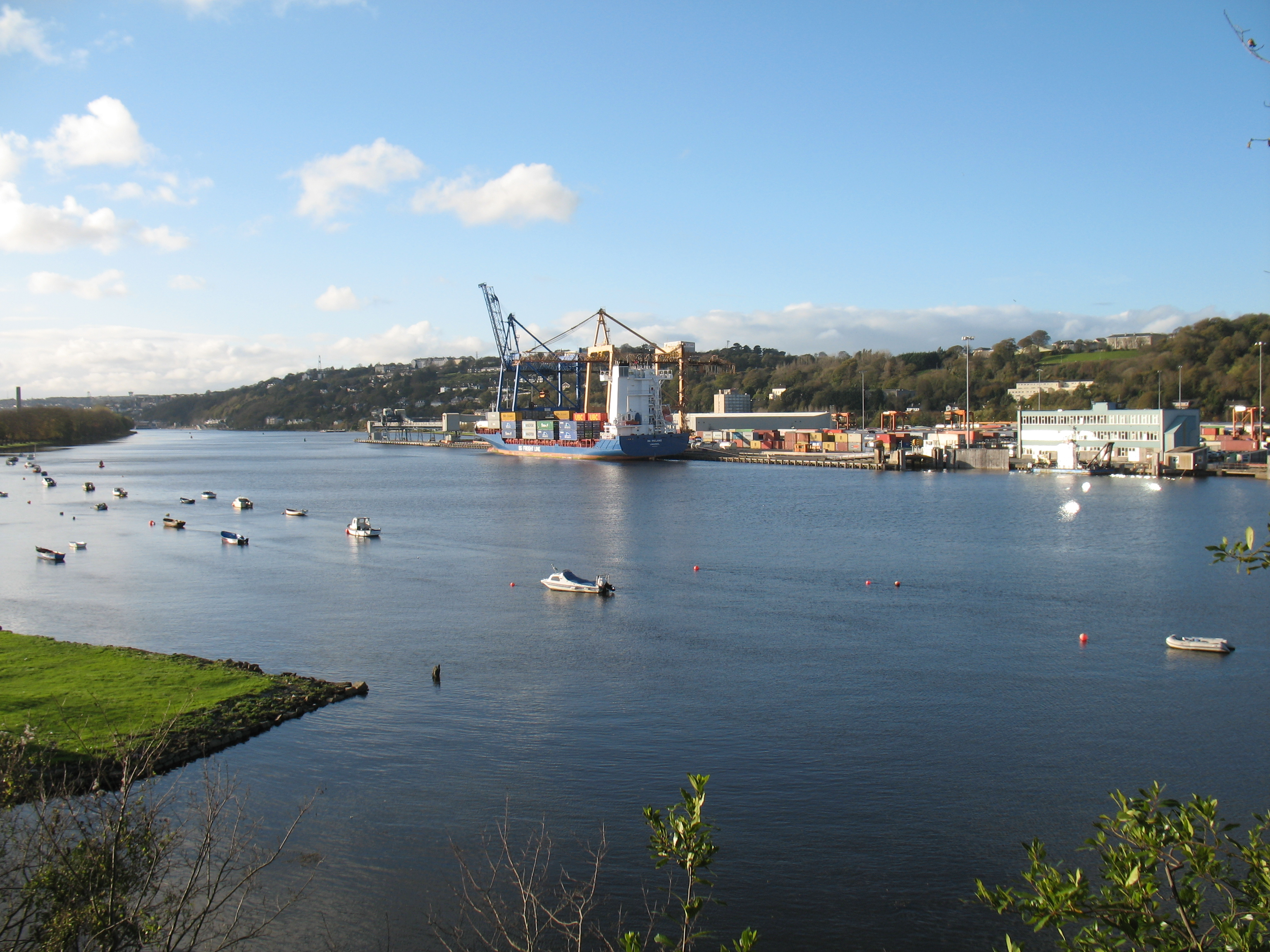 Cork Harbour